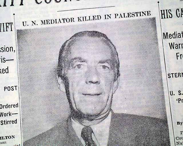 crop of NYT-Folke Bernadotte assassination